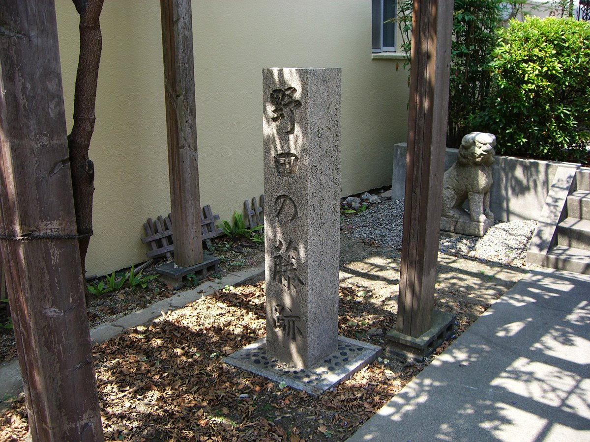 Nodafuji Monument at Kasuga Shrine, Fukushima-ku, Osaka City, Japan